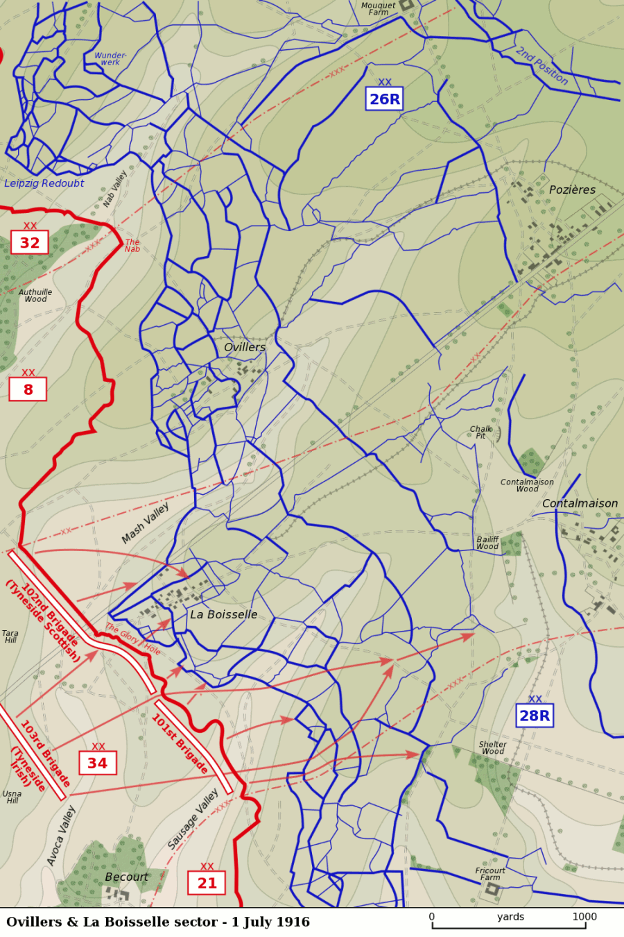 Map of the British 34th Division's attack on the Ovillers-La Boisselle sector of the Somme front, astride the Albert-Bapaume road, on 1 July 1916 - the First day on the Somme. The British front-line is shown in red, the German trenches are shown in blue. The German defences north of the road as far as Beaumont Hamel were held by the 26th Reserve Division (north to south, the 121st Reserve, 119th Reserve, 99th Reserve and 180th Regiments). South of the road, from La Boisselle to Mametz, the defences were held by the 28th Reserve Division (north to south, 110th Reserve, 111th Reserve and 109th Reserve Regiments). The three brigades of the British 34th Division are shown. The 102nd (Tyneside Scottish) and 101st Brigades attacked from the front-line. The 103rd (Tyneside Irish) Brigade attacked from the reserve position on the Tara-Usna Line and had to cross the exposed Avoca Valley before reaching the British front-line. The path of the small party from the 103rd Brigade towards Contalmaison is shown.